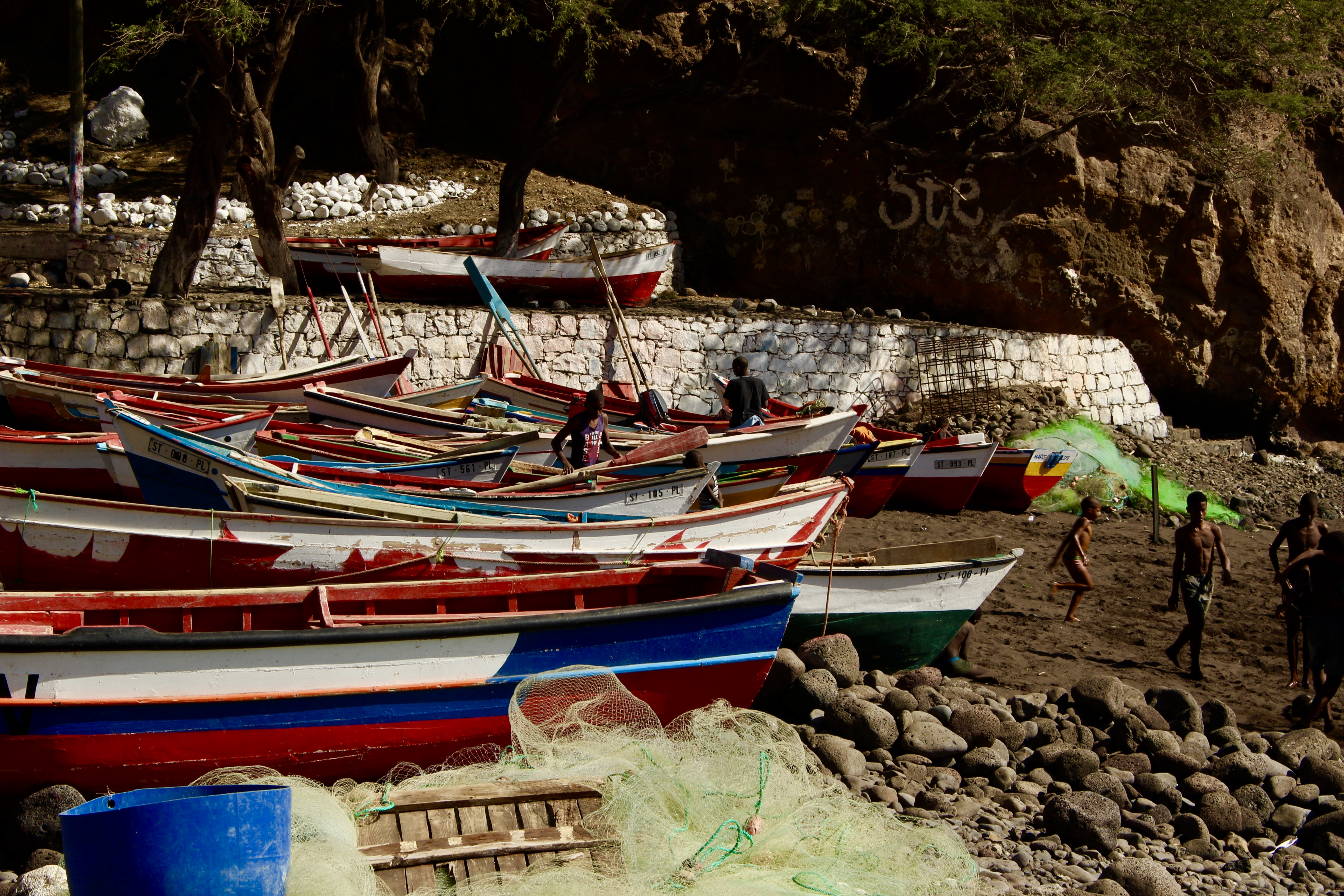 This is an image with the theme "Africa on the Move or Transport" from: Cape Verde